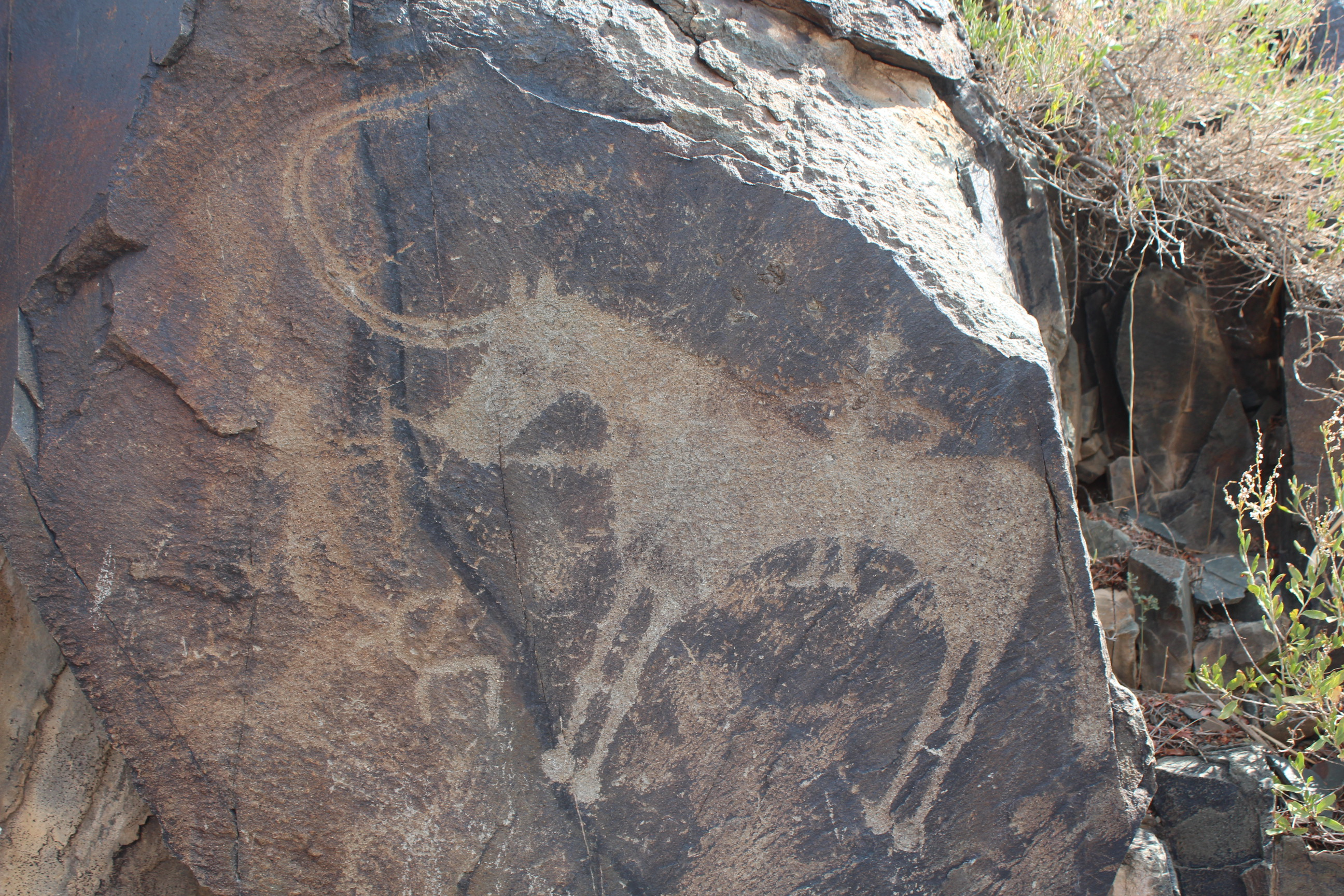 Ancient stone carvings (petroglyphs) found in a small ravine at Tamgaly - maybe this is a picture of a unicorn!